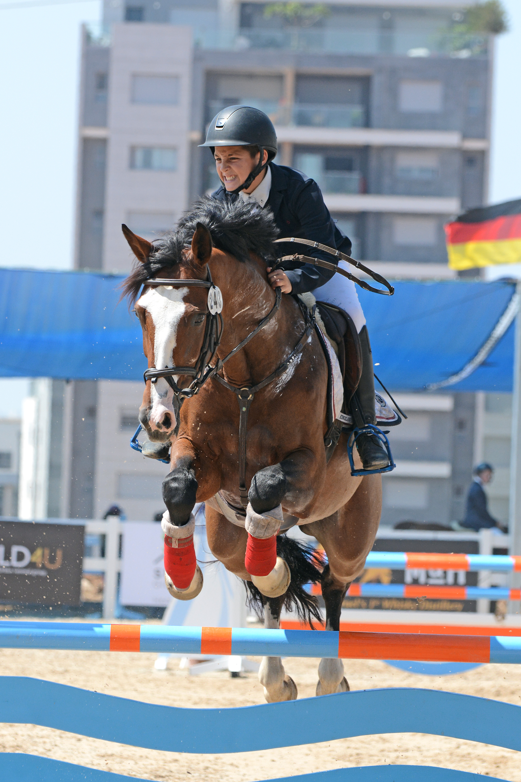 Show Jumping - horse jumping over hurdle with boy riding. Ramat Hasharon, Israel